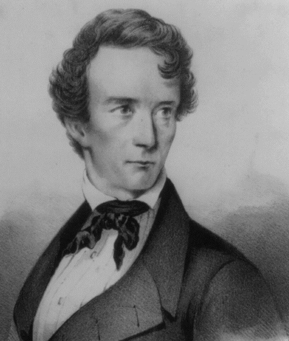 Michael Walsh, Congressman from New York